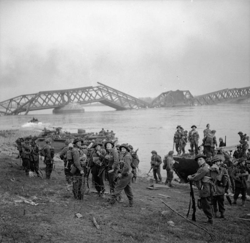 The British Army in North-west Europe 1944-45 Men of the 1st Cheshire Regiment crossing the Rhine in Buffaloes at Wesel, 24 March 1945.